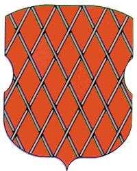 Coat of Arms Liubech or Lyubech (Polish: Lubecz) Chernihiv Oblast Ukraine (at some point use to be under Poland)